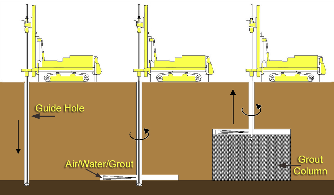 Jet grouting is a surgically-precise method of injecting seepage cutoff walls into levees where construction is constrained by encroachments like buried utilities and bridges. Seepage cutoff walls strengthen the levee and help prevent water from seeping through or underneath. Crews install the wall by drilling into the levee and injecting the wall in overlapping columns. *For simplicity, the illustration shows a single fluid jet grout method. There are three general injection methods—single fluid (grout), double fluid (air and grout) and triple fluid (air/water/grout). (U.S. Army illustration by Todd Plain/Released)